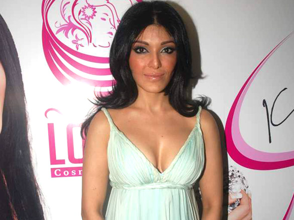 Koena Mitra launches Look Young Cosmetic Clinic